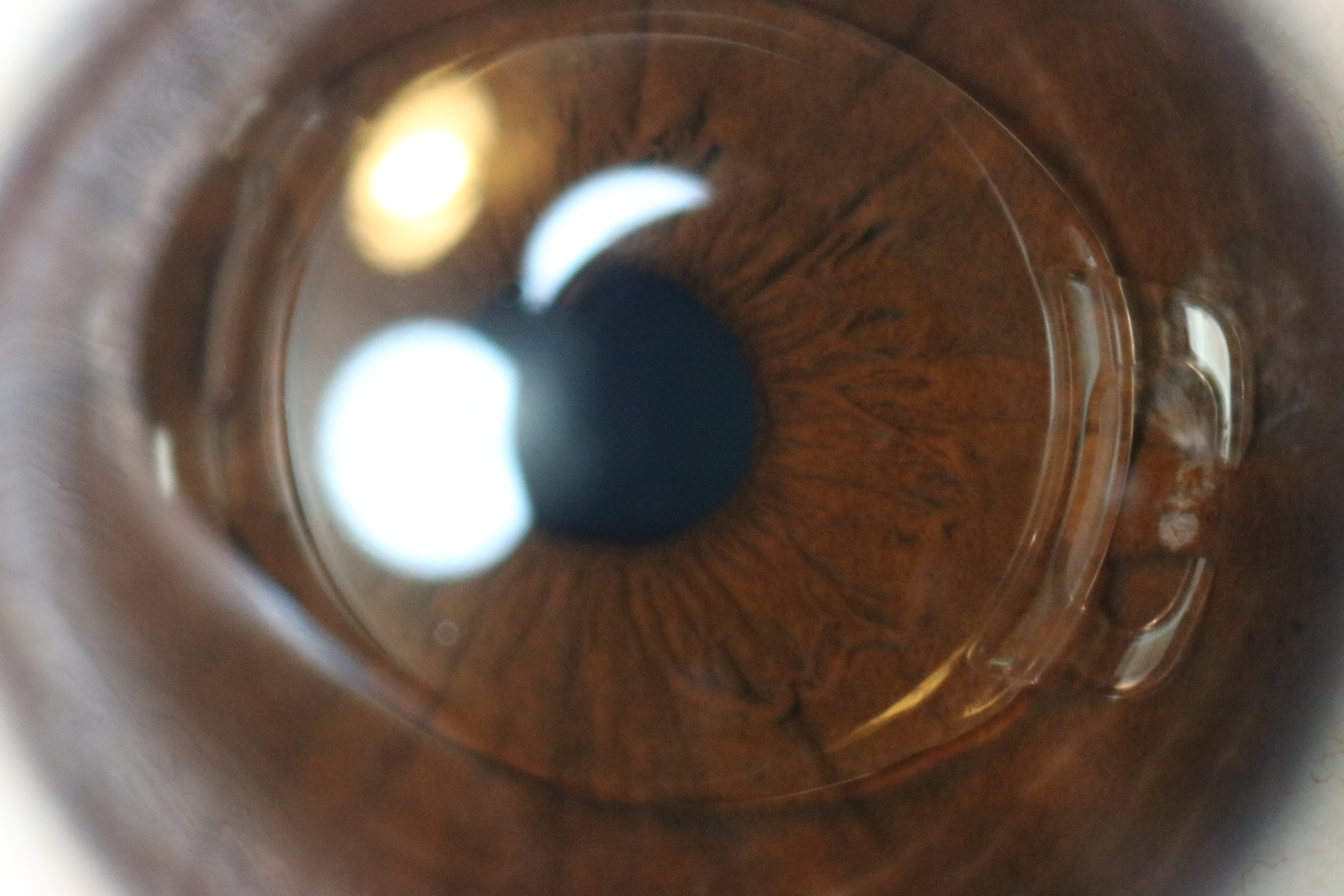 This is a view of an intraocular lens after implantation, taken without flash.